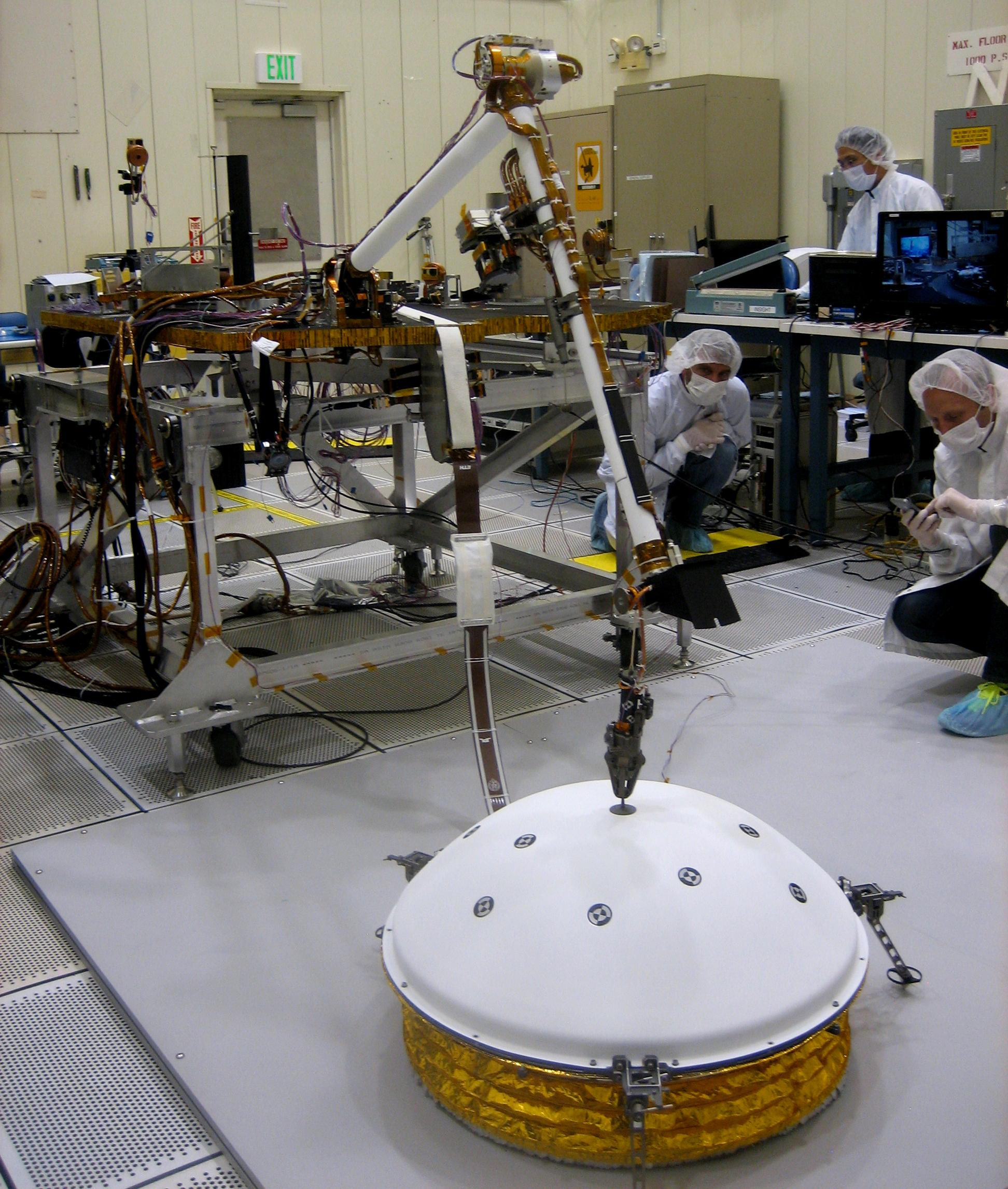 Images March 4, 2015 Testing for Instrument Deployment by InSight's Robotic Arm In the weeks after NASA's InSight mission reaches Mars in September 2016, the lander's arm will lift two science instruments off the deck and place them onto the ground. In the weeks after NASA's InSight mission reaches Mars in September 2016, the lander's arm will lift two key science instruments off the deck and place them onto the ground. This image shows testing of InSight's robotic arm inside a clean room at NASA's Jet Propulsion Laboratory, Pasadena, California, about two years before it will perform these tasks on Mars. InSight -- an acronym for Interior Exploration using Seismic Investigations, Geodesy and Heat Transport -- will launch in March 2016. It will study the interior of Mars to improve understanding of the processes that formed and shaped rocky planets, including Earth. One key instrument that the arm will deploy is the Seismic Experiment for Interior Structure, or SEIS. It is from France's national space agency (CNES), with components from Germany, Switzerland, the United Kingdom and the United States. In this scene, the arm has just deployed a test model of a protective covering for SEIS, the instrument's wind and thermal shield. The shield's purpose is to lessen disturbances that weather would cause to readings from the sensitive seismometer. InSight is part of NASA's Discovery Program of competitively selected solar system exploration missions with highly focused scientific goals. NASA's Marshall Space Flight Center in Huntsville, Alabama, manages the Discovery Program for the agency's Science Mission Directorate in Washington. NASA's Jet Propulsion Laboratory, a division of the California Institute of Technology, Pasadena, manages InSight for the NASA Science Mission Directorate. Lockheed Martin Space Systems, Denver, is building the spacecraft.